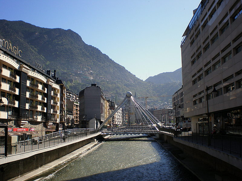 The centre of Andorra la Vella and the Gran Valira river flowing under the Pont de Paris road bridge